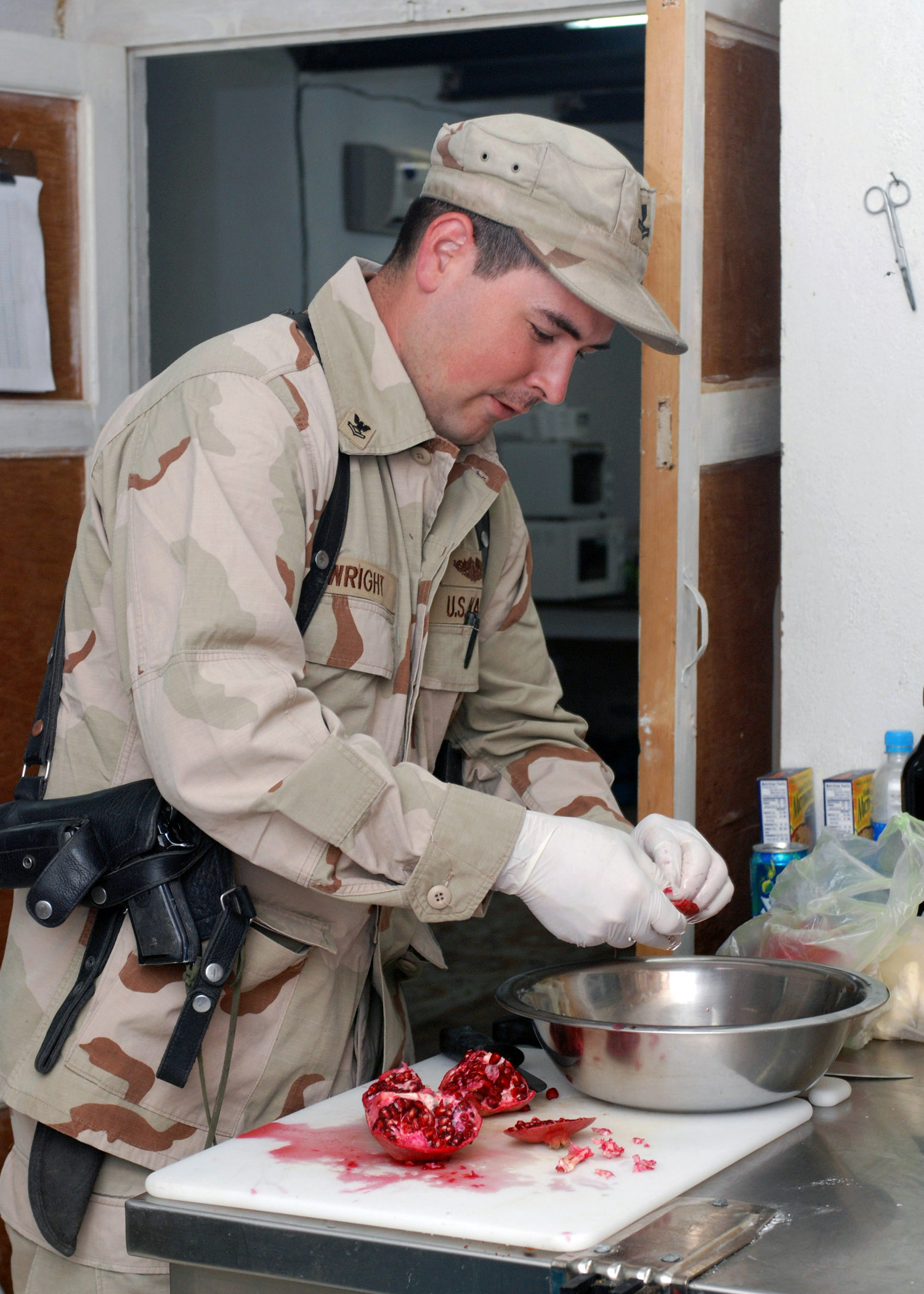 MAYMANEH, Afghanistan (Oct. 30, 2007) Culinary Specialist 2nd Class Timothy Wright, assigned to the Combined Security Transition Command-Afghanistan, cuts up pomegranates to put out as a snack. In addition to his duties as a cook, Wright is also responsible to order and store all supplies; and for all maintenance, hygiene and upgrades to the galley. U.S. Navy photo by Mass Communication Specialist 1st Class David M. Votroubek (Released)